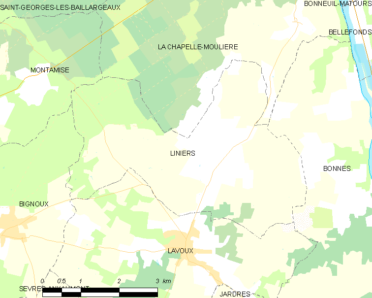 Map of French municipality Liniers